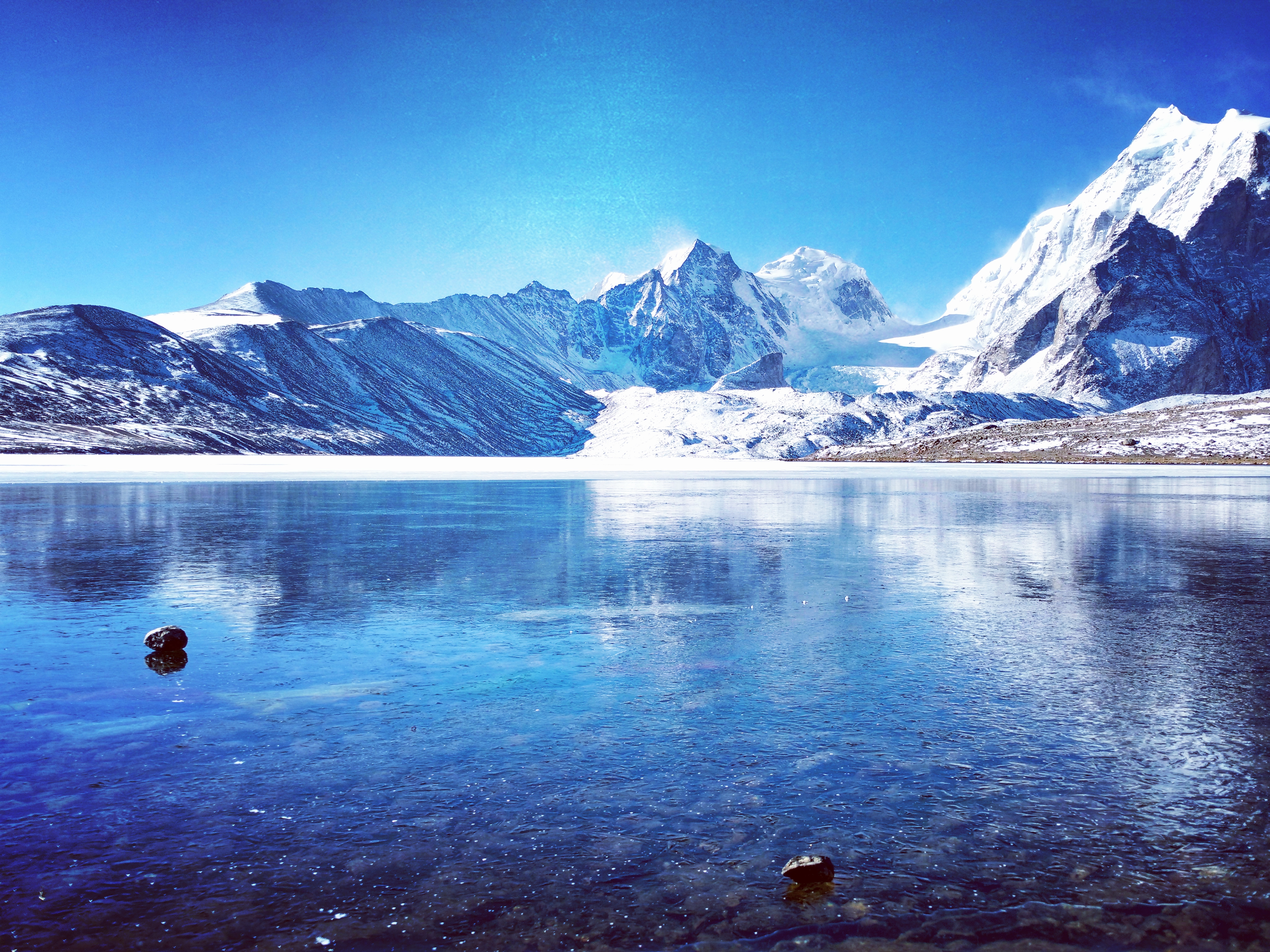 This sacred lake stands at 17000ft.